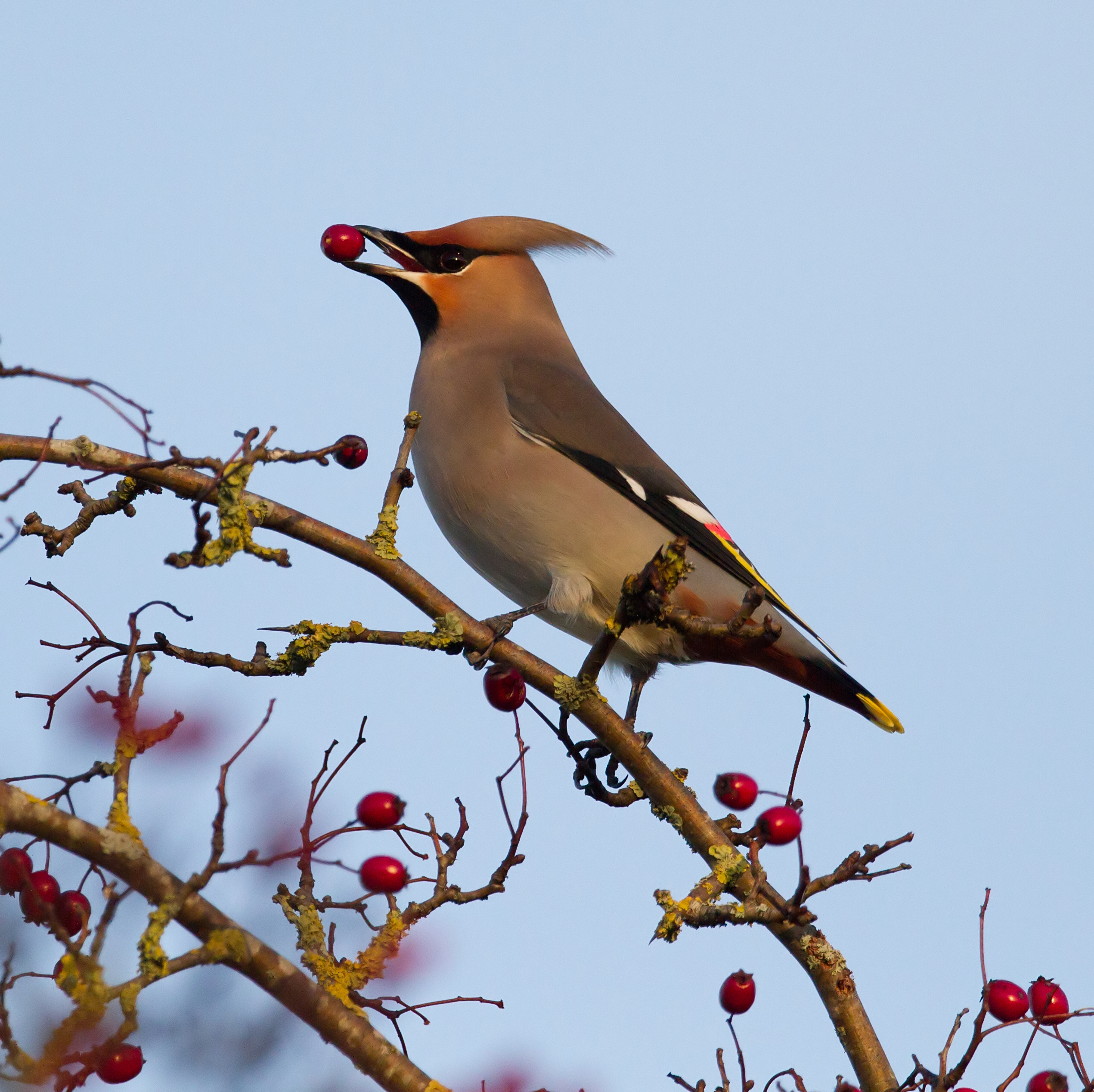 Bohemian waxwing (Bombycilla garrulus)